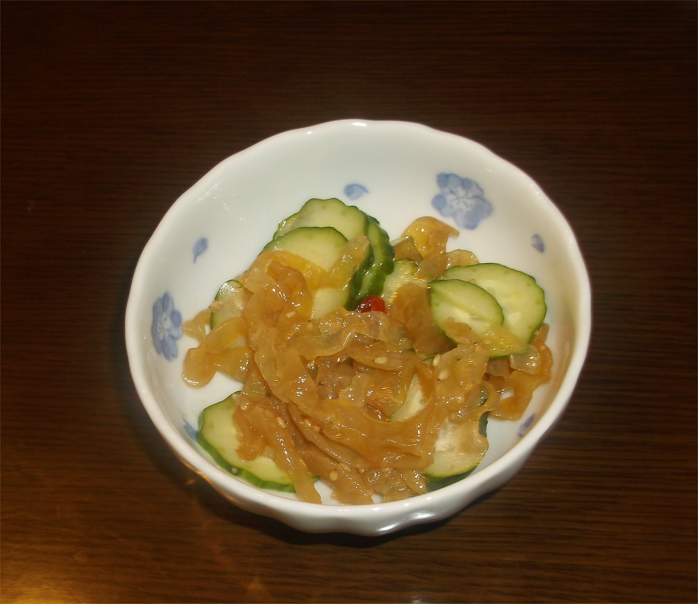 A photo of "Chinese Jellyfish Salad "(Japanese style) in Tokyo,Japan.